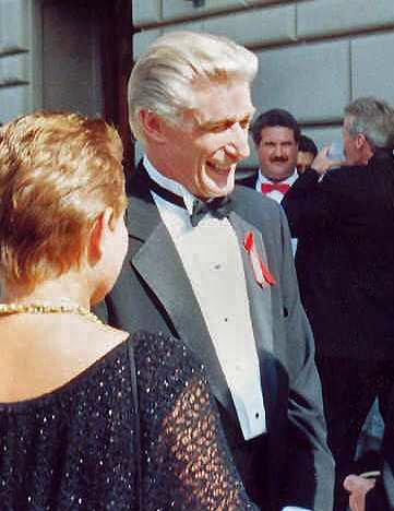 Photo taken at the 43rd Emmy Awards 8/25/91